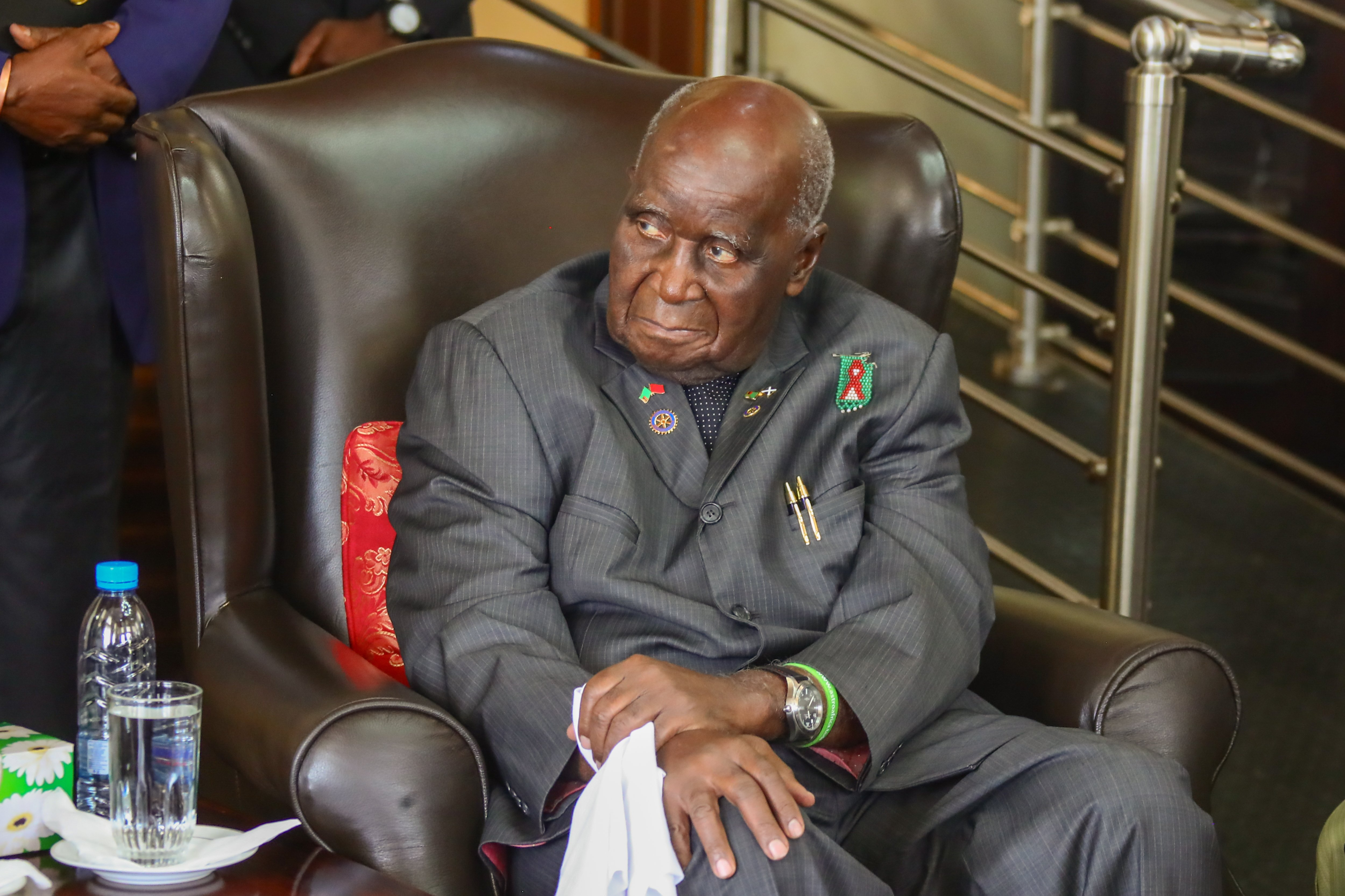 Kenneth David Buchizya Kaunda (born 28 April 1924) is a Zambian former politician who served as the first President of Zambia from 1964 to 1991